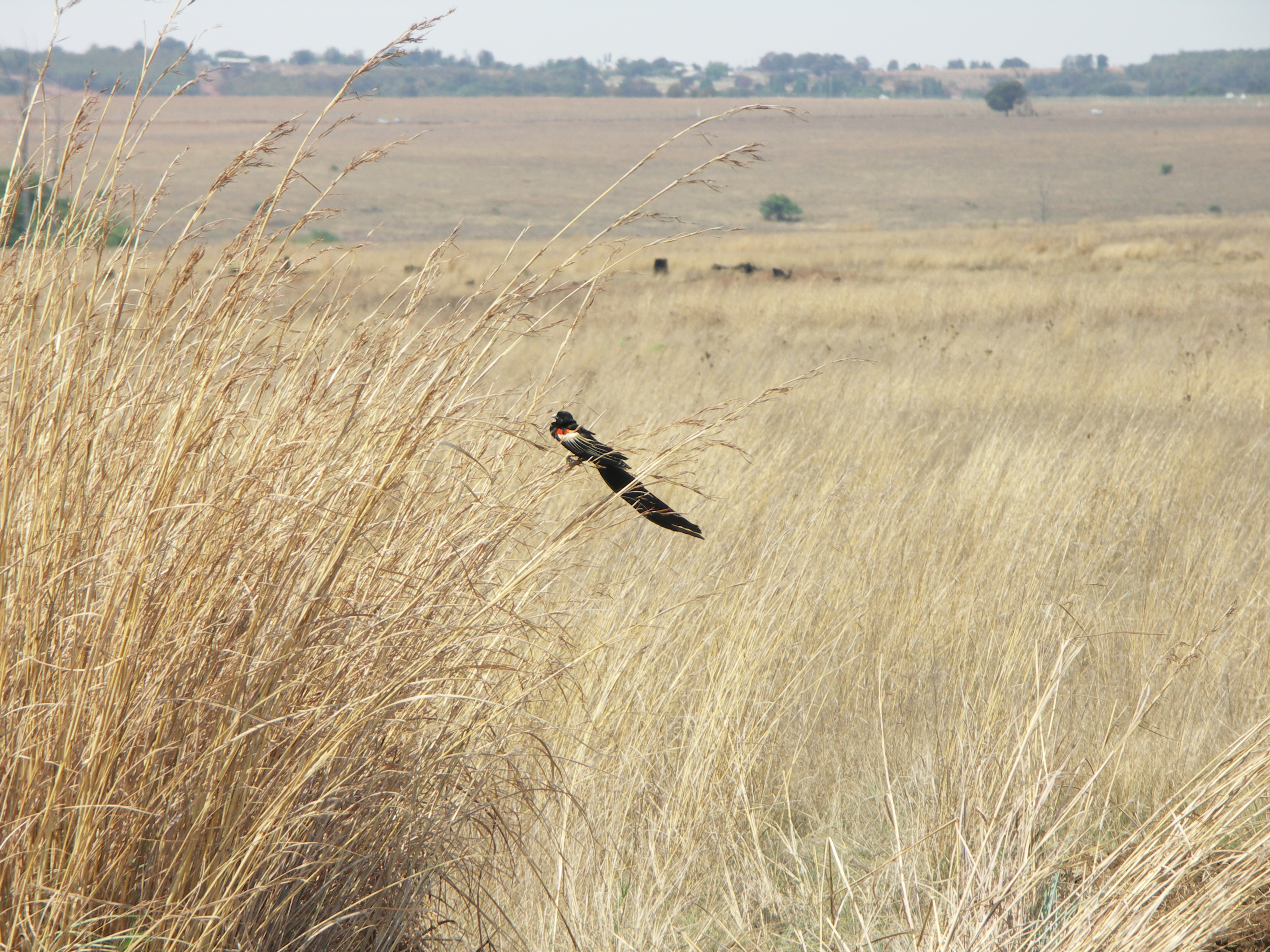 Long-tailed Widowbird (Euplectes progne) in the Rietvlei Nature Reserve, Tshwane, Gauteng, South Africa